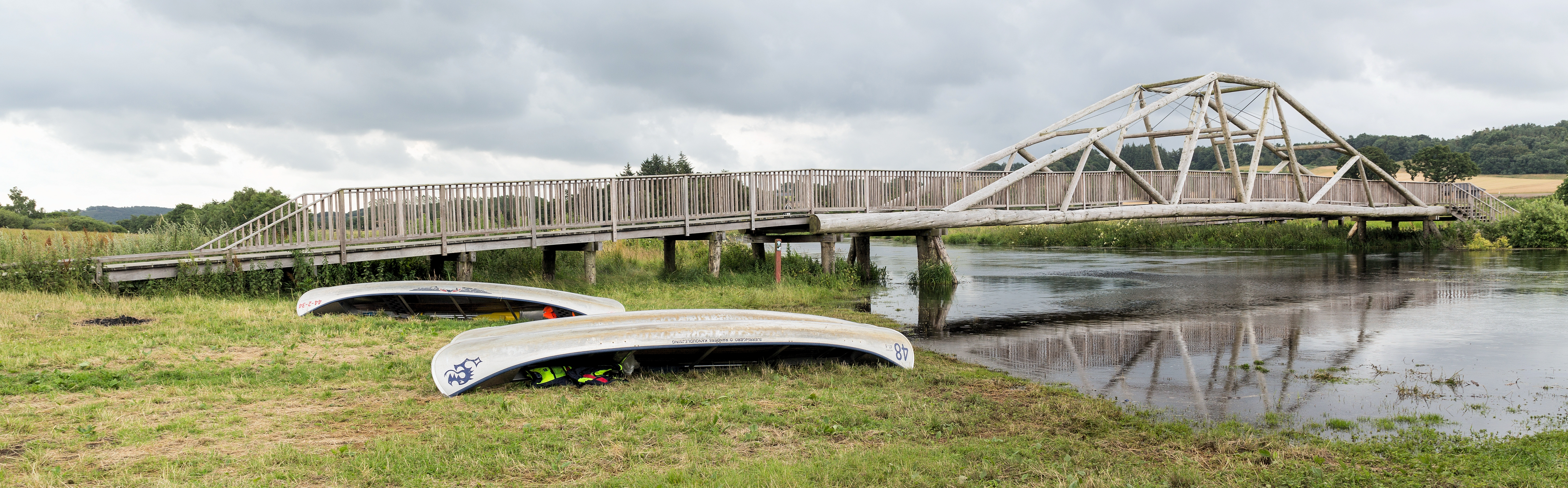 Kjællinghøl bridge and canoe space - Gudenå. Kjællinghøl bridge is longest bridge in Denmark made of round logs. The bridge has a span of 35 meters. Along with the ramps is almost 90 meters long.